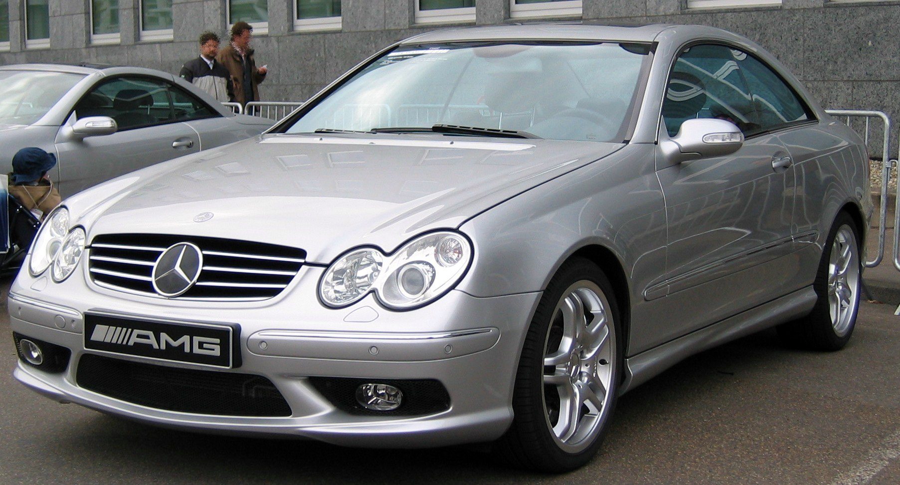 Mercedes-Benz CLK 55 AMG (C209) at Stars and Cars 2004